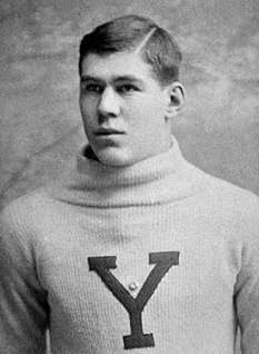 William Heffelfinger in his Yale university football photograph, 1888-1891.